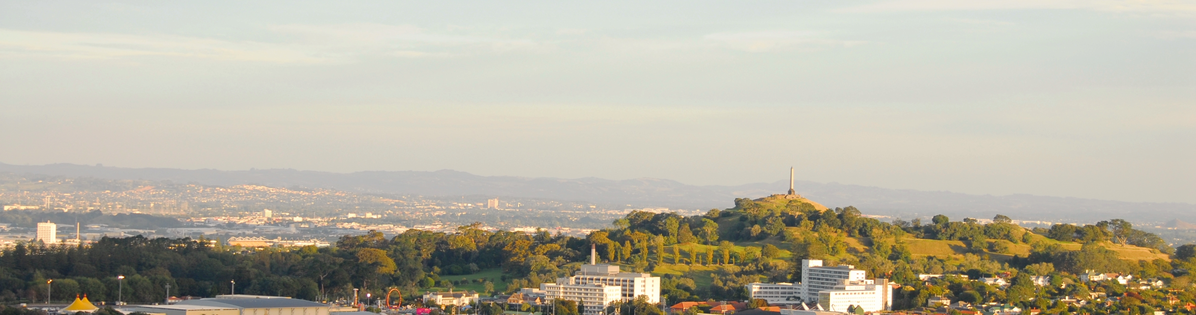 One tree hill as viewed from Mt. Eden. (Easter show also seen!)